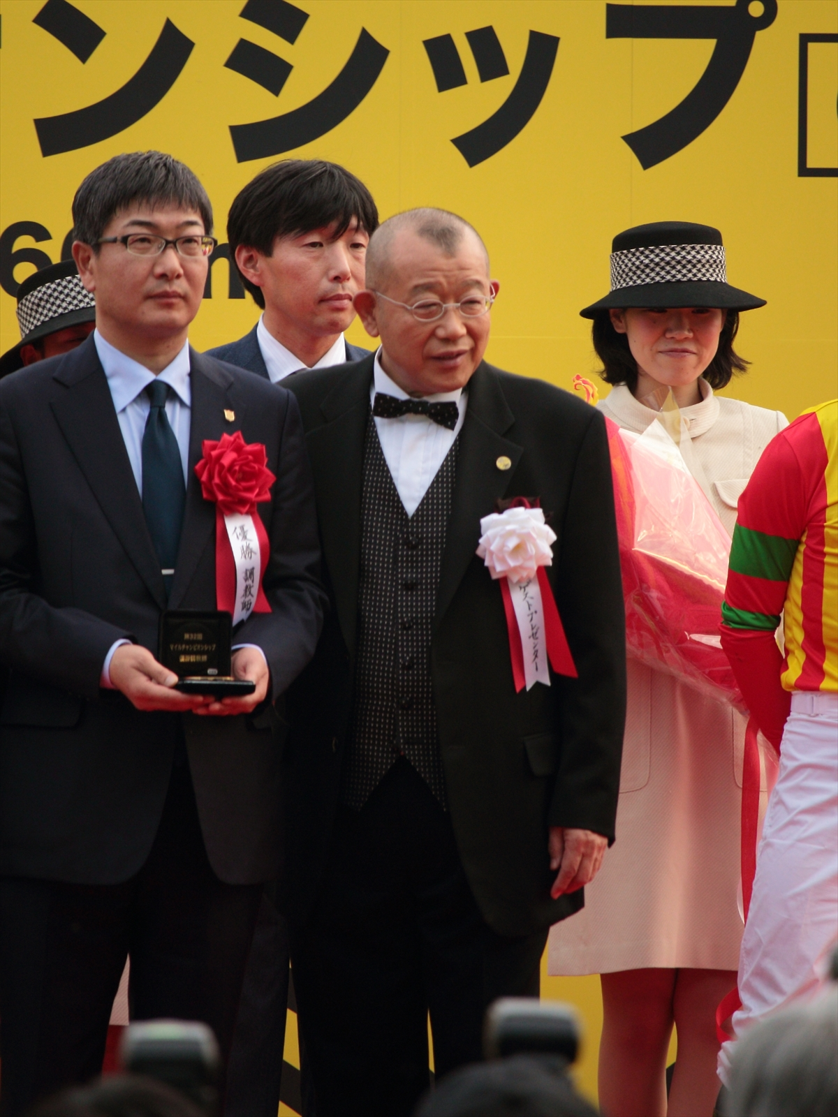 Shōfukutei Tsurube II (Rakugoka. Actor).